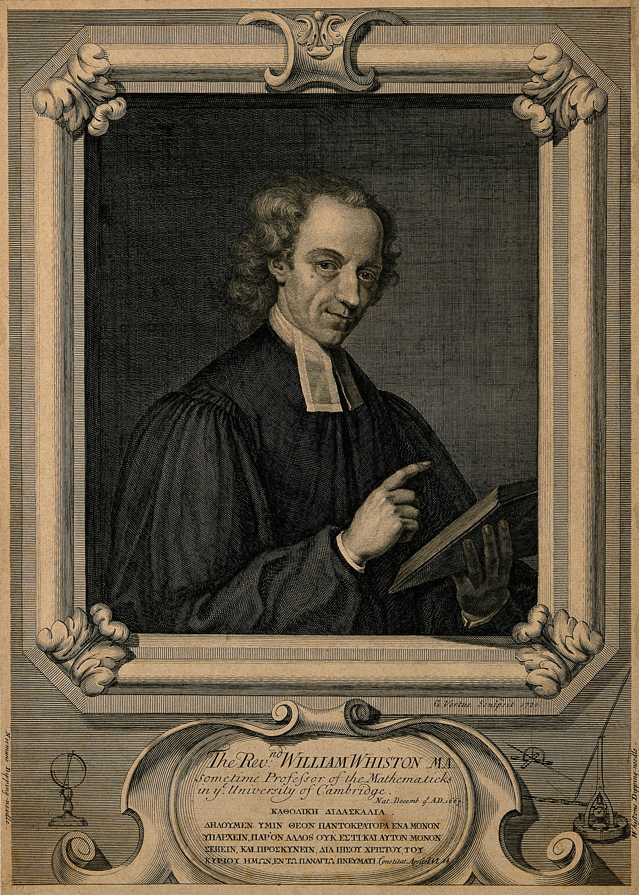 William Whiston. Line engraving by G. Vertue, 1720. Iconographic Collections Keywords: portrait prints; William Whiston; engravings